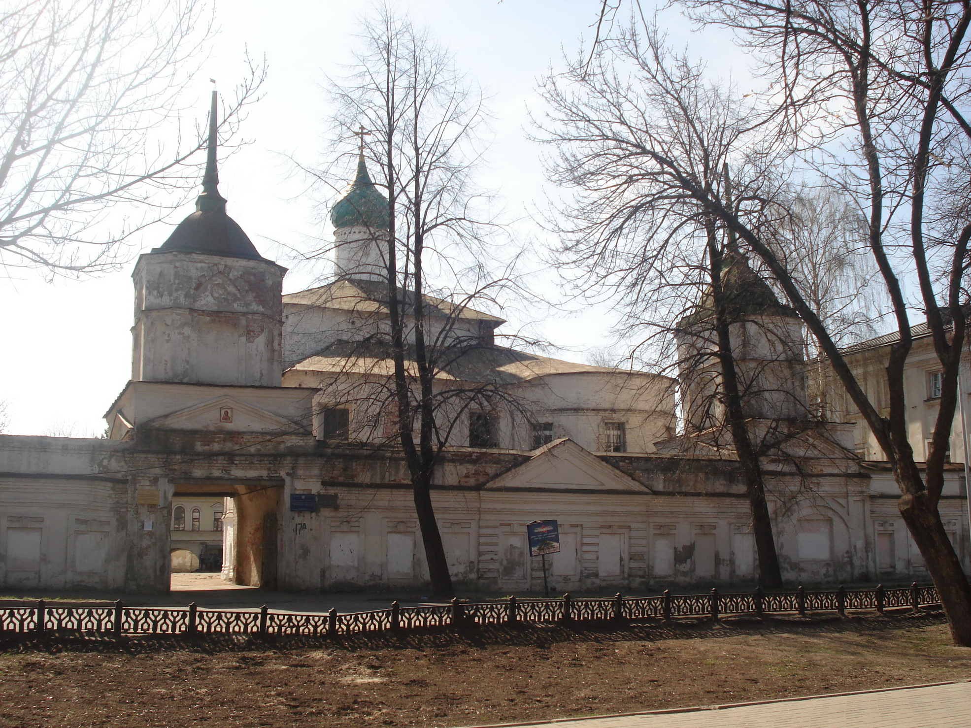 Kirillo-Afanasievsky Monastery